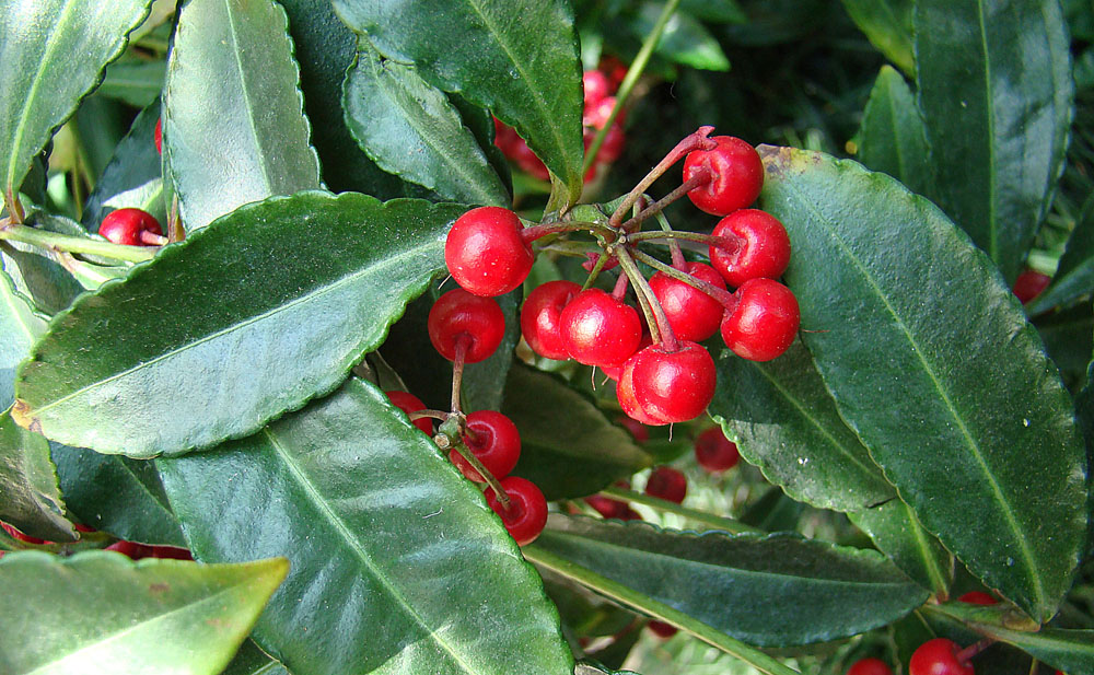 A medicinal and decorative plant of east Asian origin, but widely planted and locally invasive. There seems to be some confusion as to which family claims this species. In context at